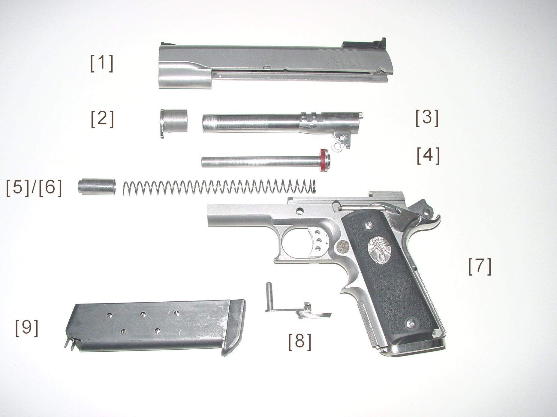 Parts, Partial Disassembled Weapon 1 Slide with front and rear, micrometer, sight 2 Bearing, barrel 3 Barrel, pistol with link 4 Guide (long), recoil spring, with bumper 5 Plug, recoil spring 6 Spring, helical, compression 7 receiver, pistol, with safeties, trigger system, ejector (cartidge), grips and jet-funnel 8 Stop, slide 9 Magazine with support and bottom extension